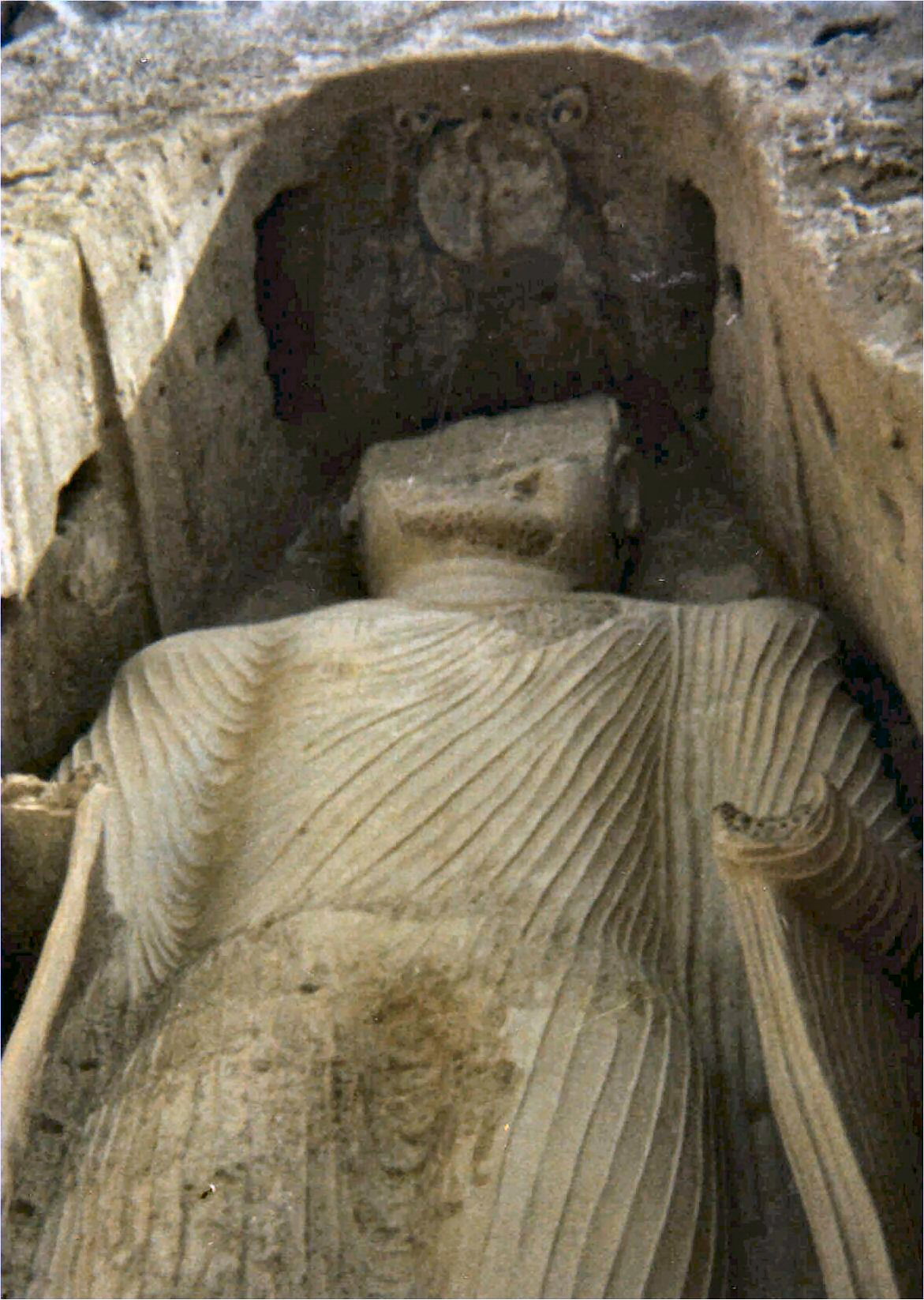 Bamyan - Closer view of statue of Buddah